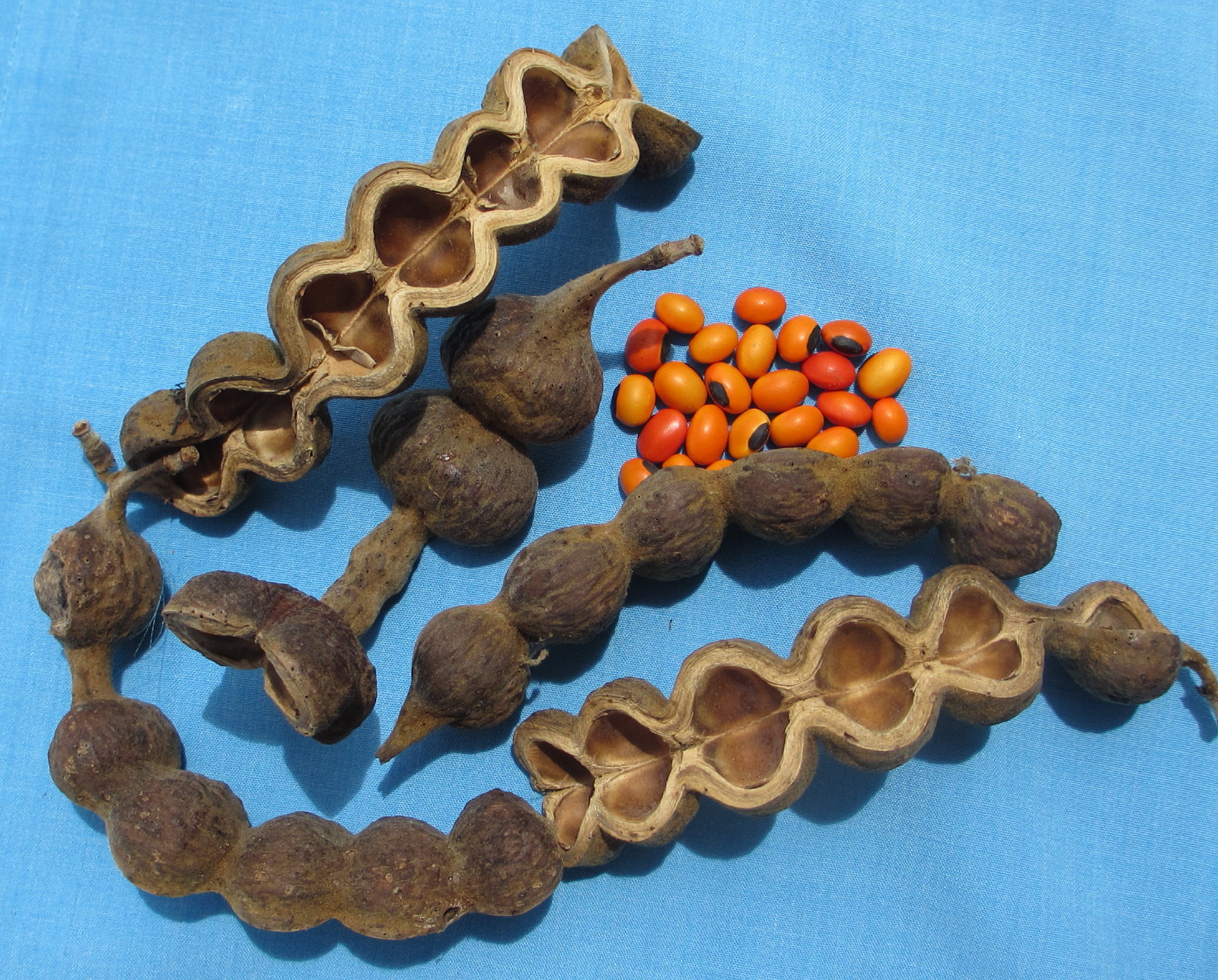 Erythrina haerdii, from Ancuabe District. Seeds are pale orange with black around the hilum. Mozambique, Africa.